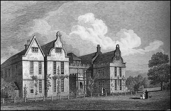 An old print of Delapre Abbey Contents 1 Licensing 2 Source 3 Licensing 4 Original upload log Licensing